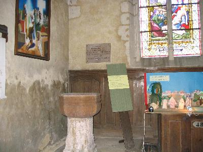 Baptismal font in St. Aubin de Tourouvre where Robert Giguere was baptized in 1616.